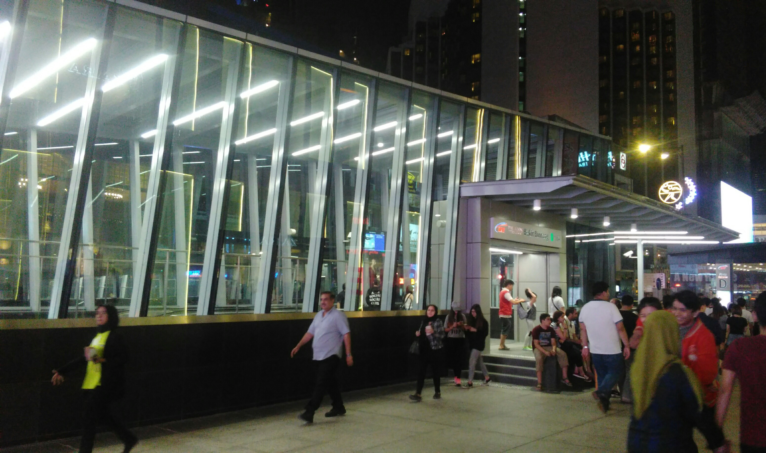 This is the outside view of Entrance D of Bukit Bintang MRT station.